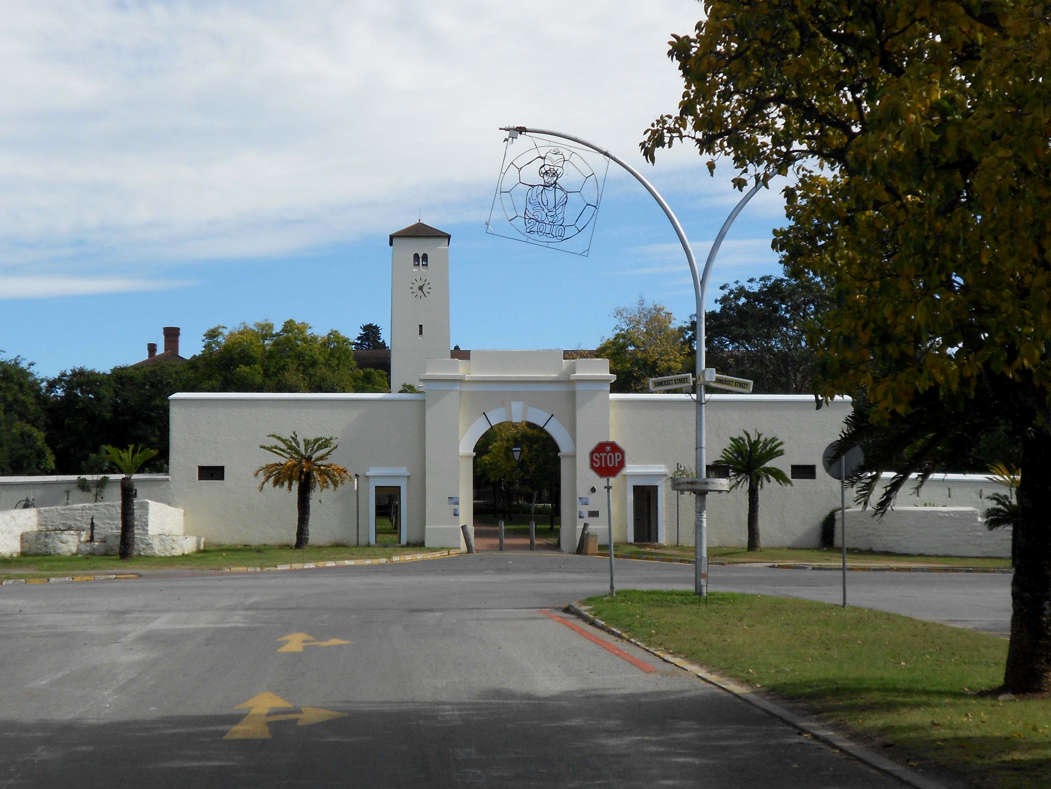 Drostdy Gateway, Somerset Street, Grahamstown This media shows a South African Protected Site with SAHRA file reference 9/2/003/0009.